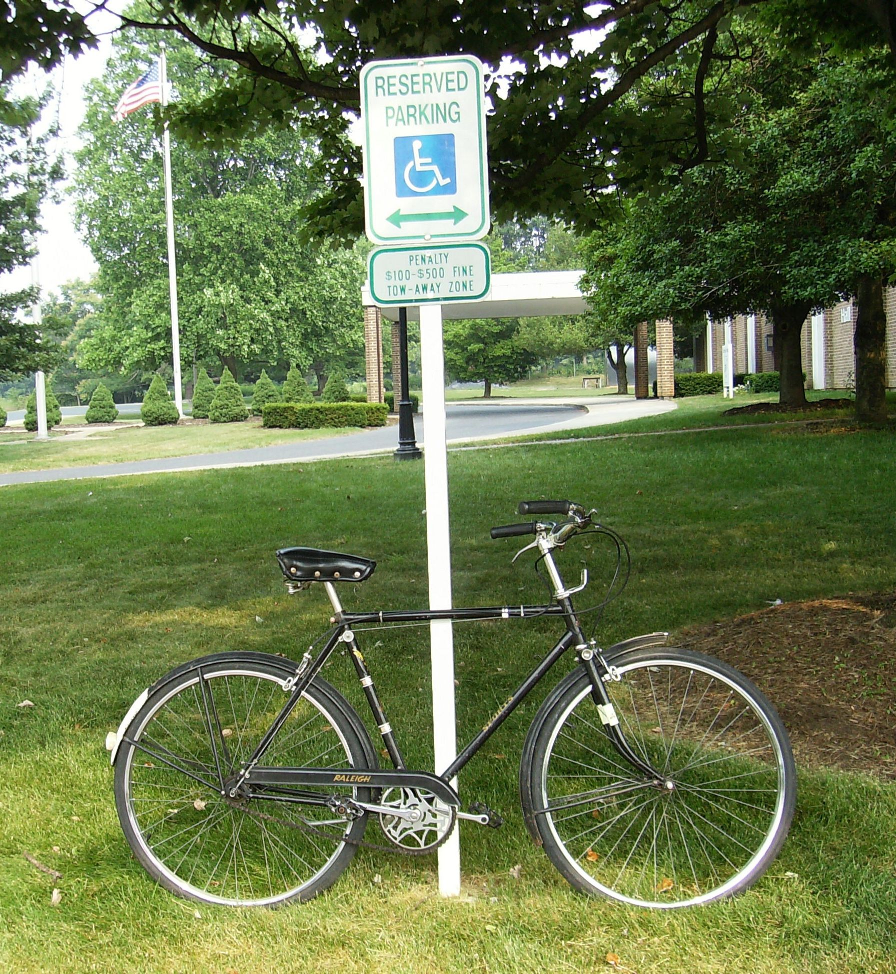 Black 1970 Raleigh Sports with Sturmey-Archer three-speed hub. Photographed at Blue Ridge Community College, Weyers Cave, Virginia.